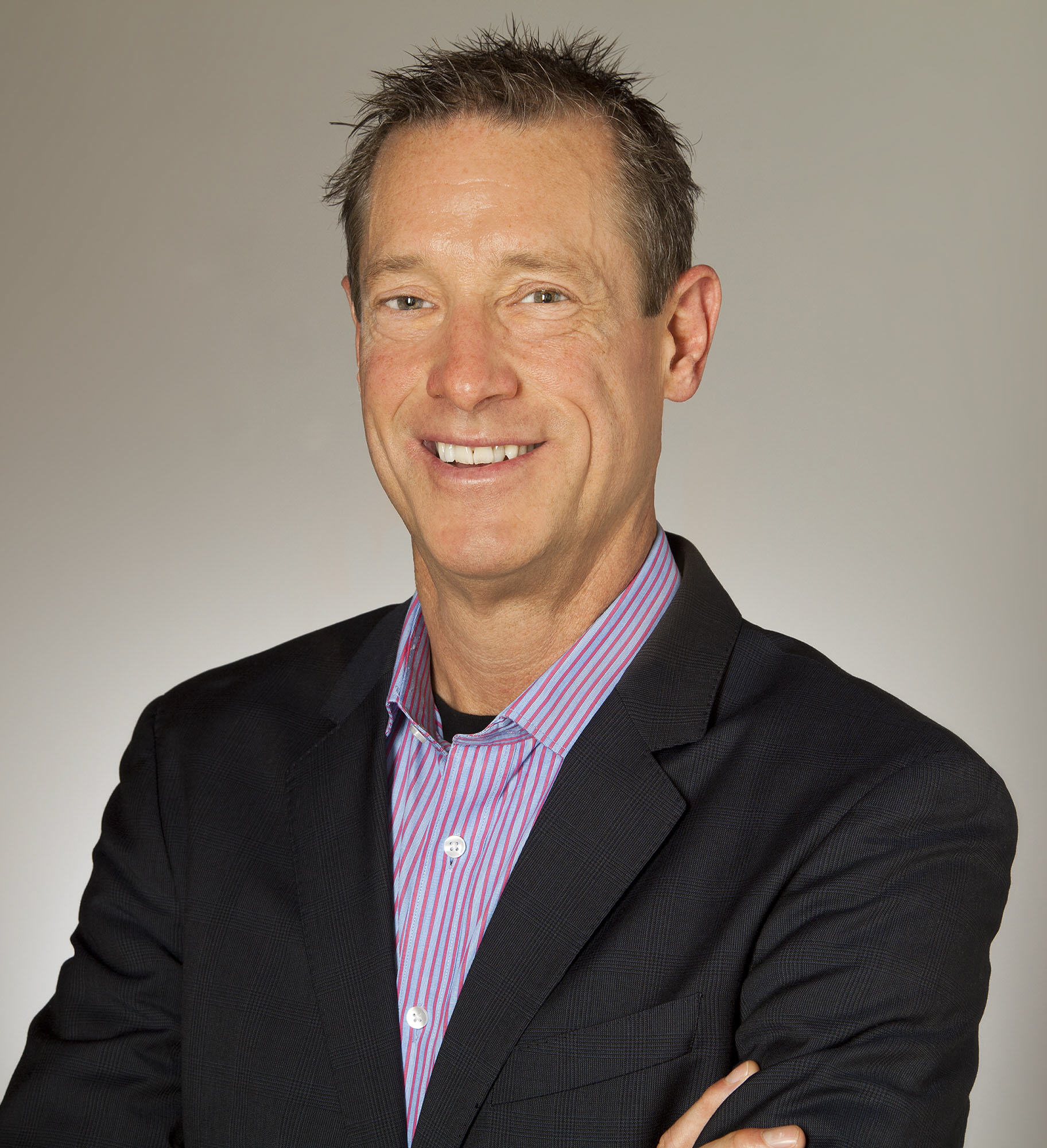 Cropped version. Full version is at